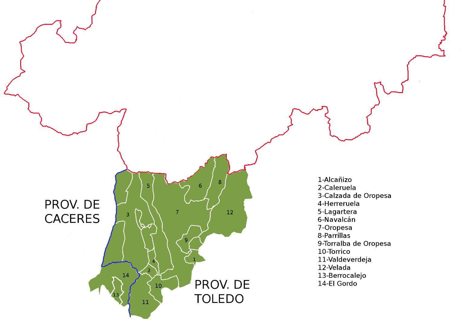 Municipios del arciprestazgo de Oropesa